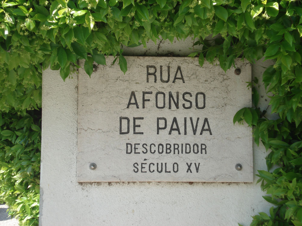 photo of toponymic slab